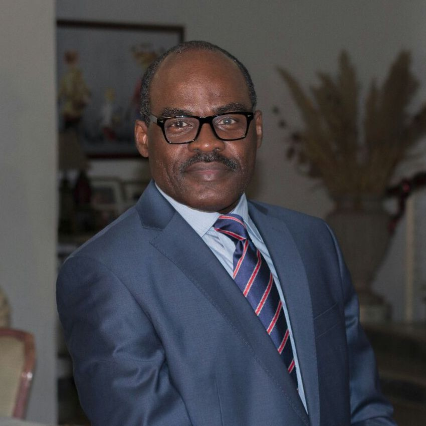 Nicolas Kazadi at home